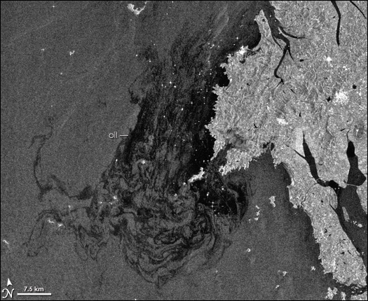 2007 Korea oil spill